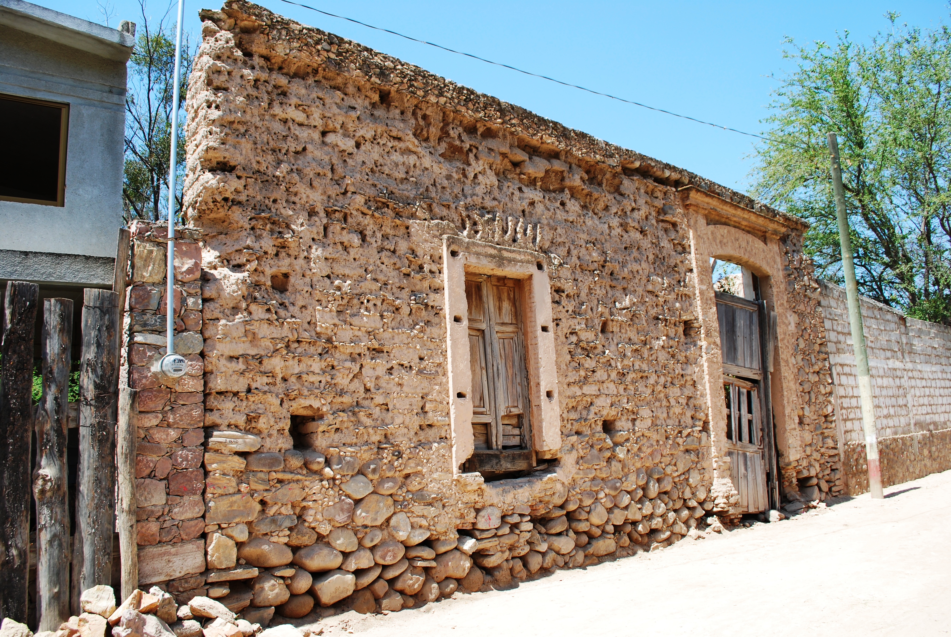 Facade of crumbling adobe house in Peñamiller, Querétaro, Mexico